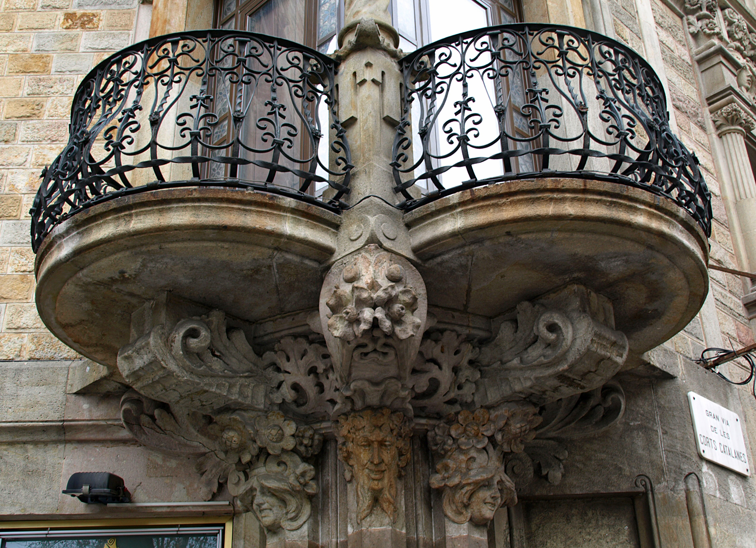 Conjunt de Tres Edificis - Catalan Modernisme (unknown architect)